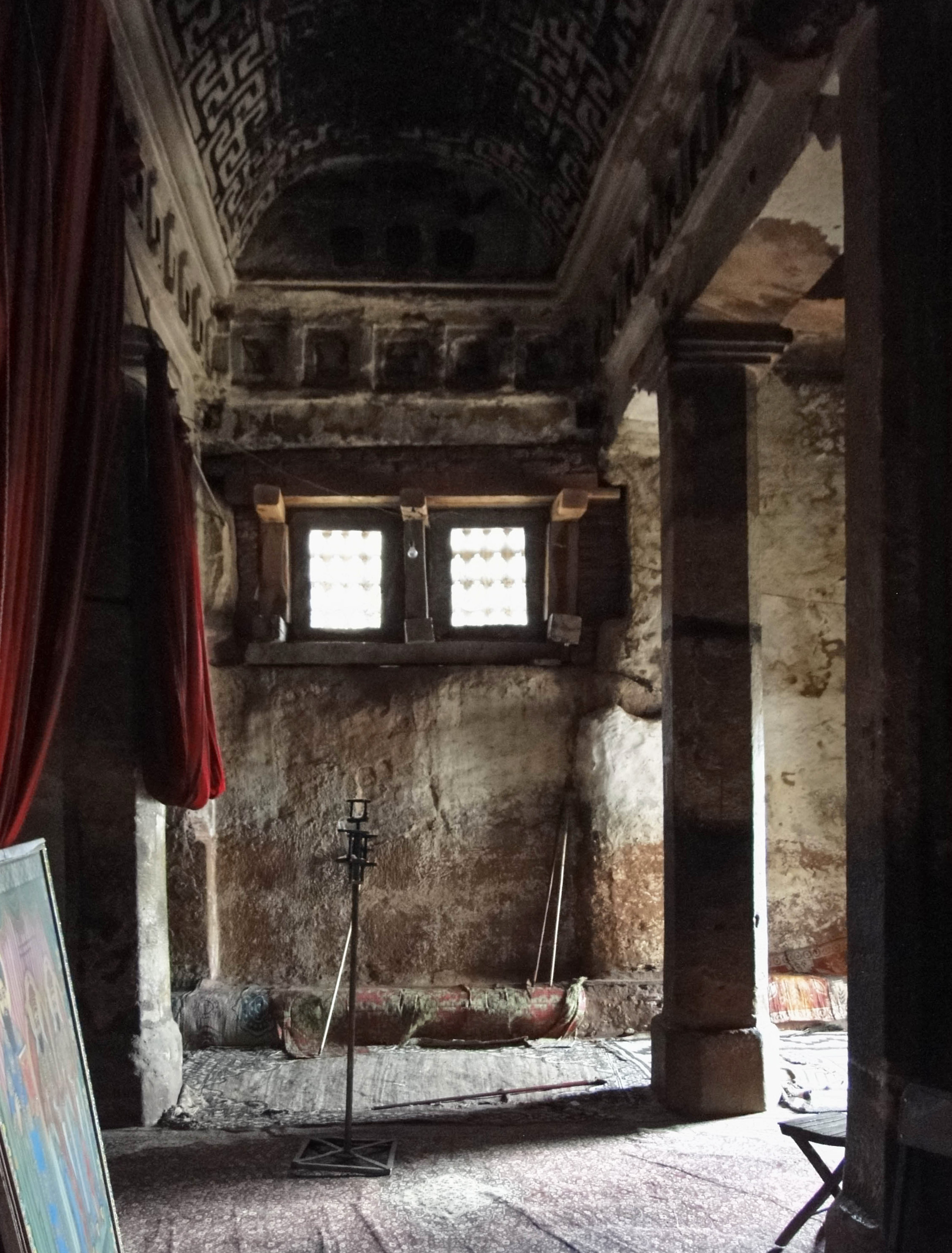 Interior of Abreha and Atsbeha Church, Ethiopia